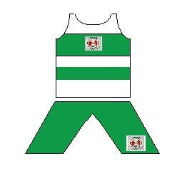 Since 1888, this has been the traditional uniform of Lakeside Rowing Club for most of the rowing regattas.